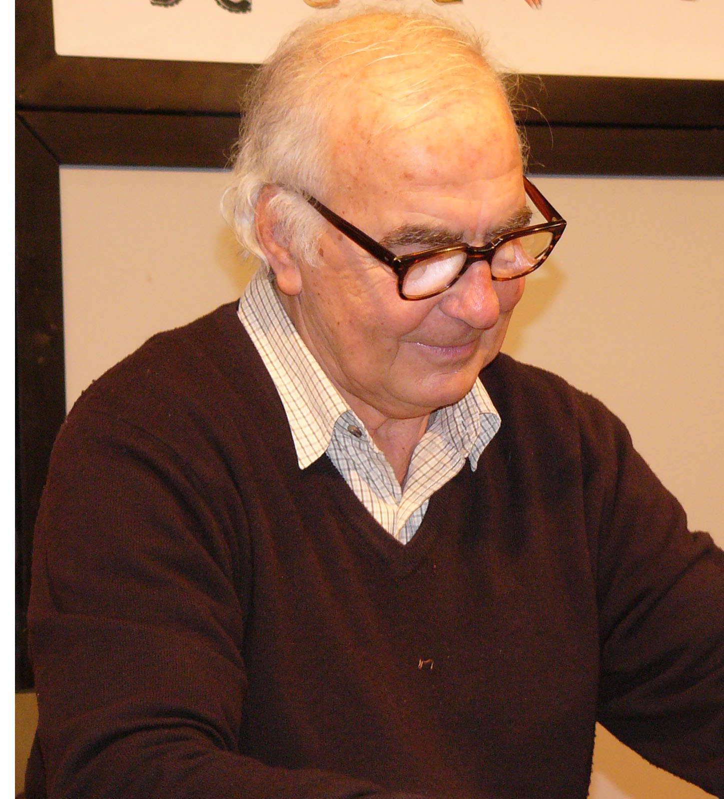 it: Gallieno Ferri coauthor of Zagor (Za-gor-te-nay), sign autographs at Cartoomics, Milano 2007